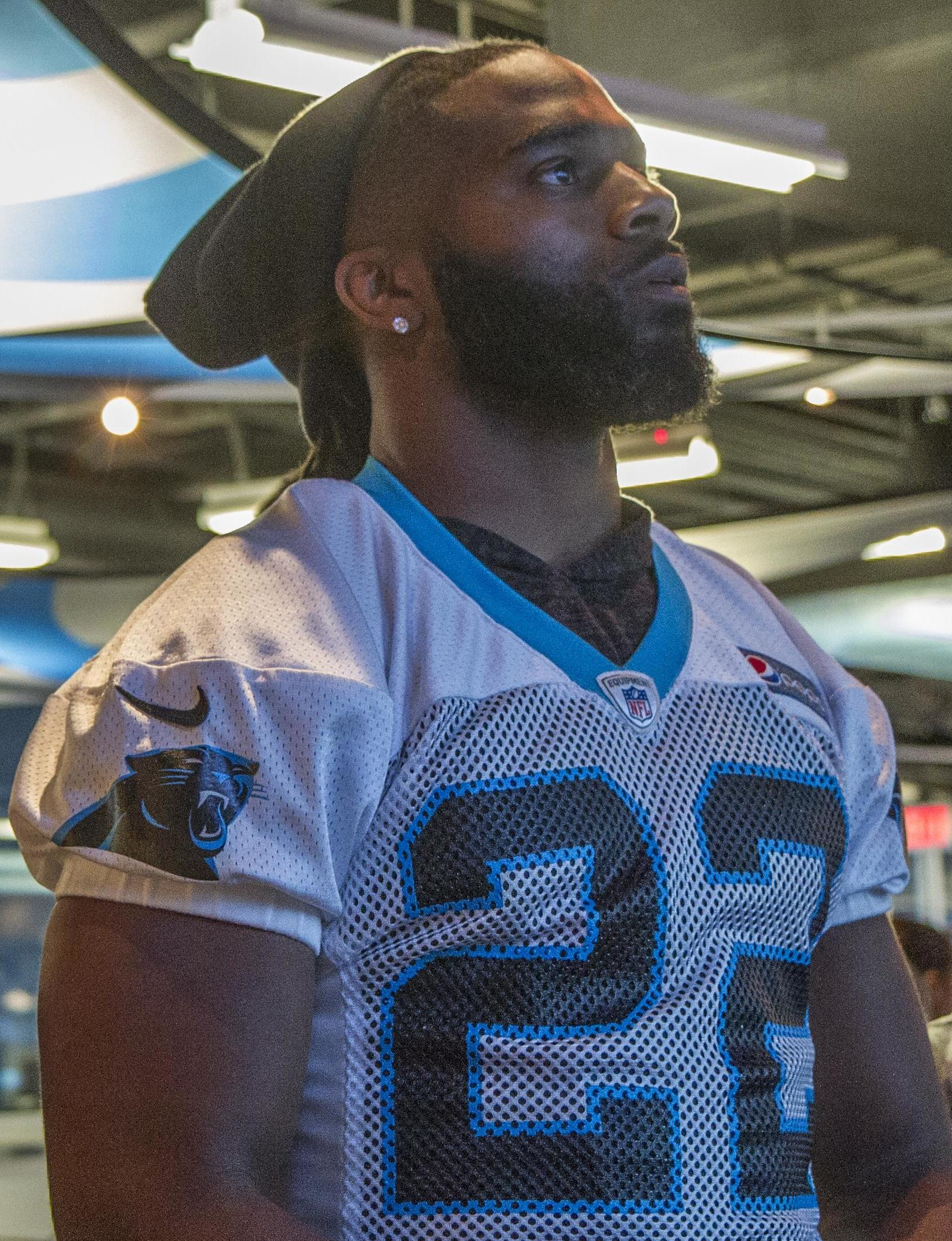 Charlotte - Capt. Jerome Russell, Operations Officer, with the 108th Training Command (Initial Entry Training), plays against Michael Griffin, a Safety for the Carolina Panthers, during the Pro vs. GI Joe video game challege in Charlotte, N.C., Nov. 7, 2016.